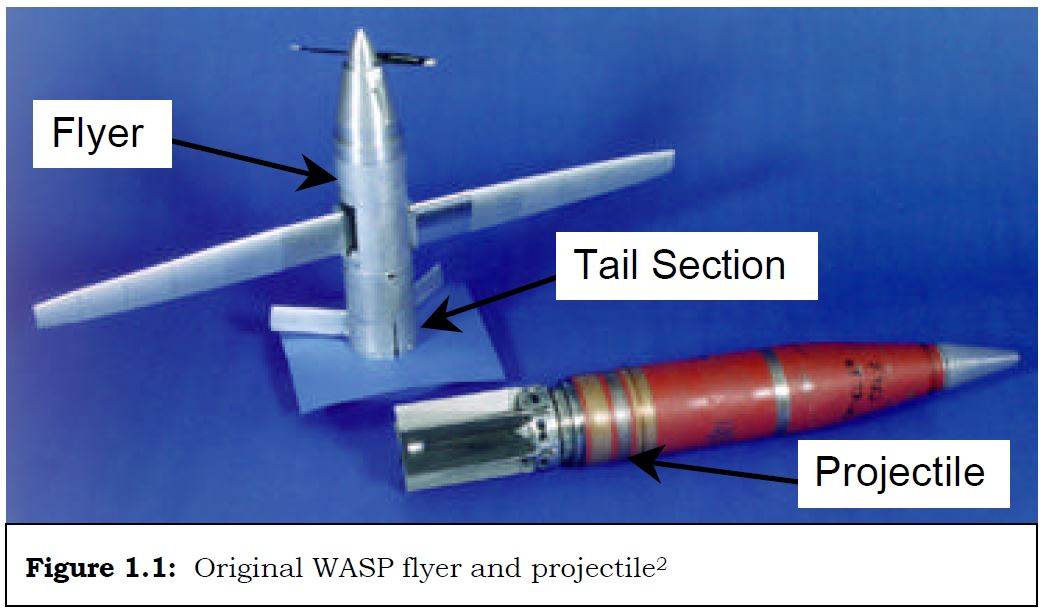 The first generation of the Wide Area Surveillance Projectile shown in its deployed and stowed configuration.